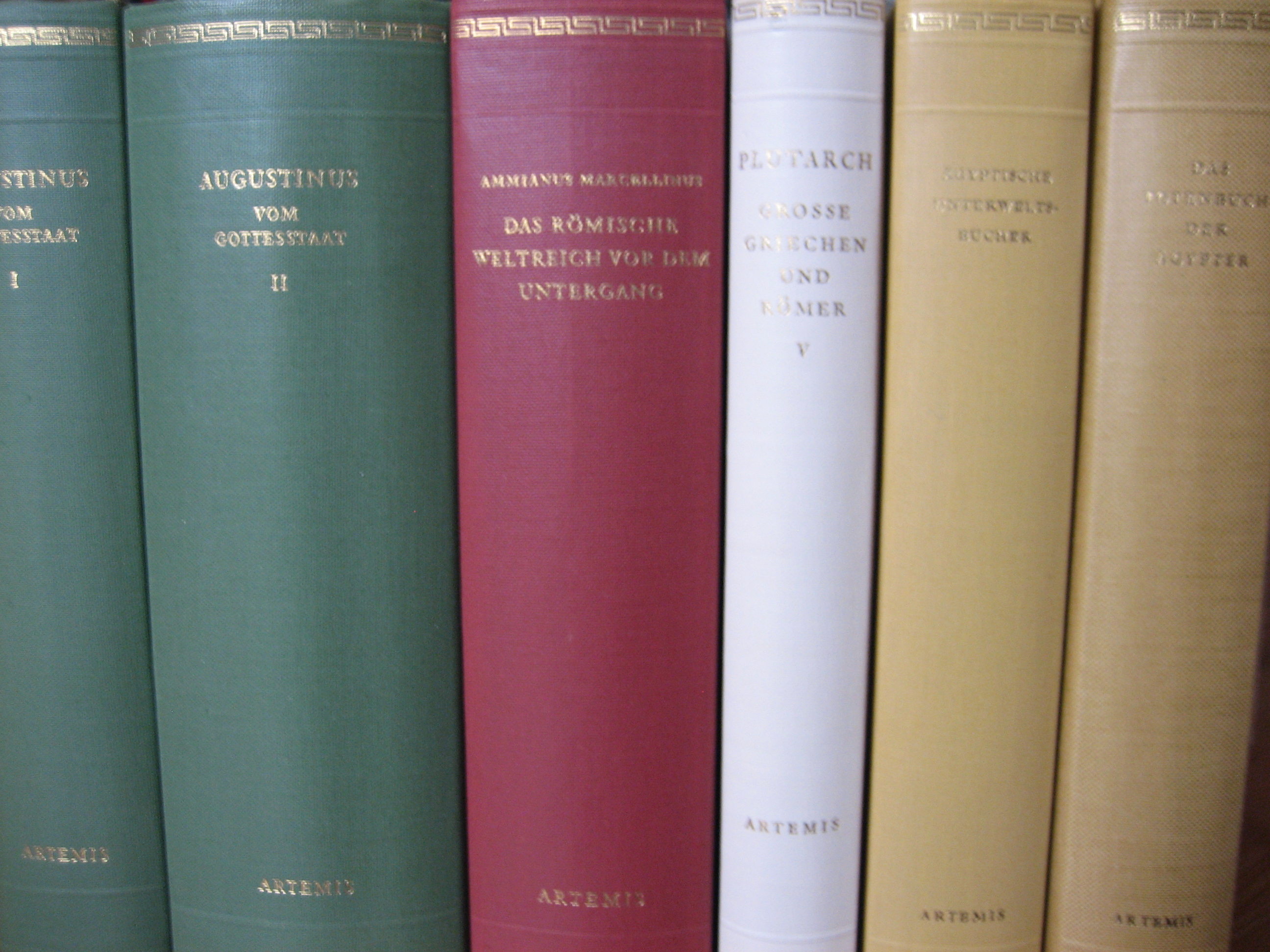 Typical Cover-Colours